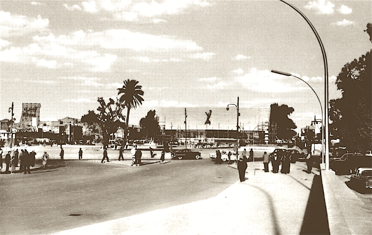 Incomplete Liberty Monument at Tahrir Square, Baghdad, 1960.